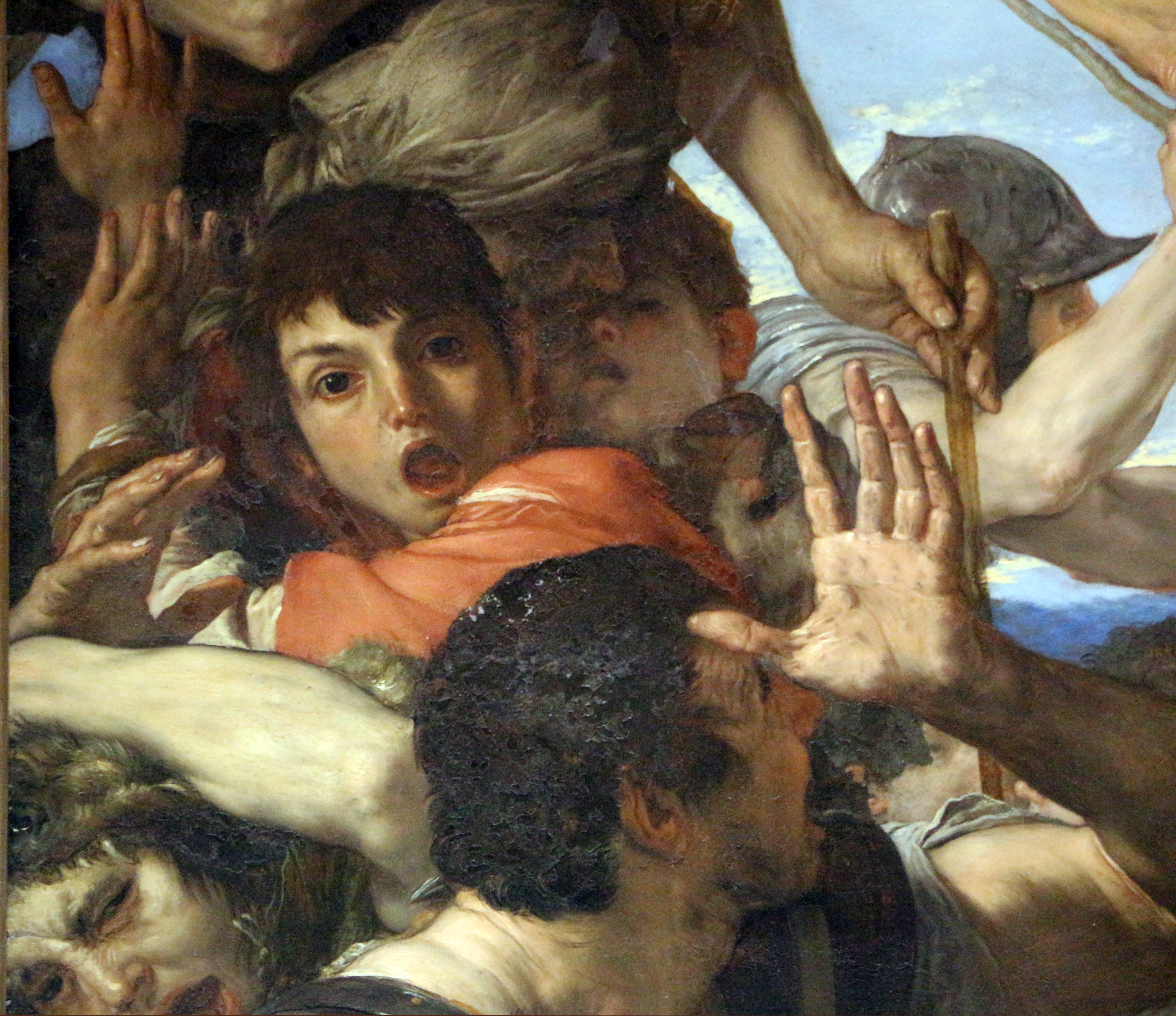 Cathedral (Naples) - Interior